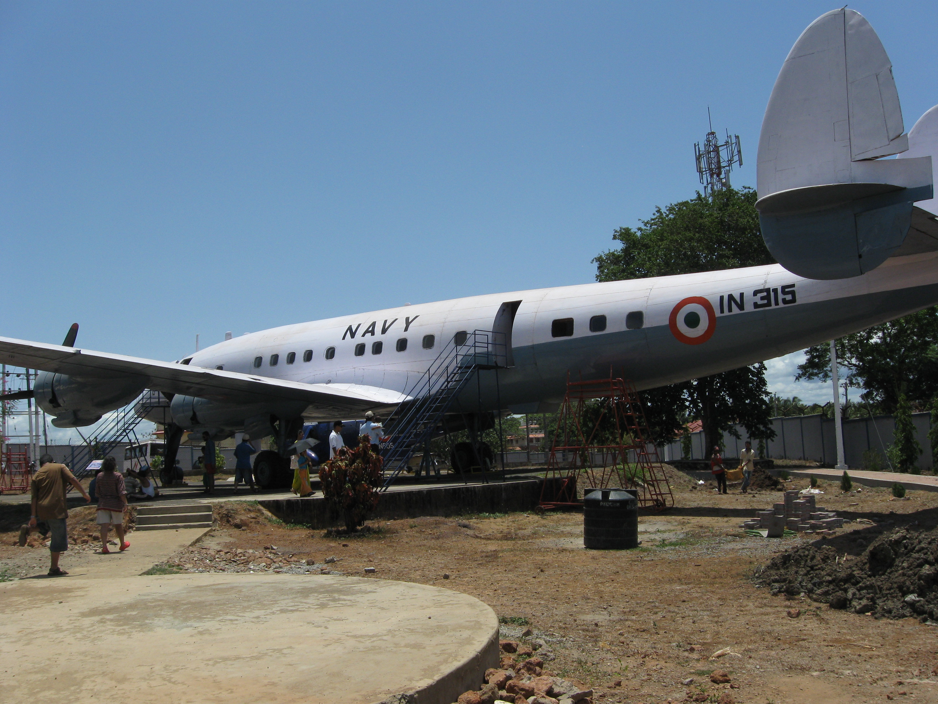 the star attraction, The Lockheed L-1049E Super Constellation